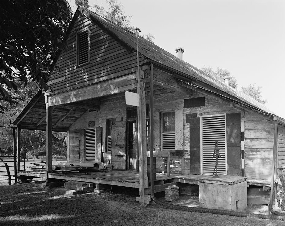 Oakland Plantation, Plantation Store & Post Office — on Cane River Lake and Route 494, in Bermuda near Natchitoches, in Natchitoches Parish, Louisiana. Image: HABS—Historic American Buildings Survey of Louisiana.